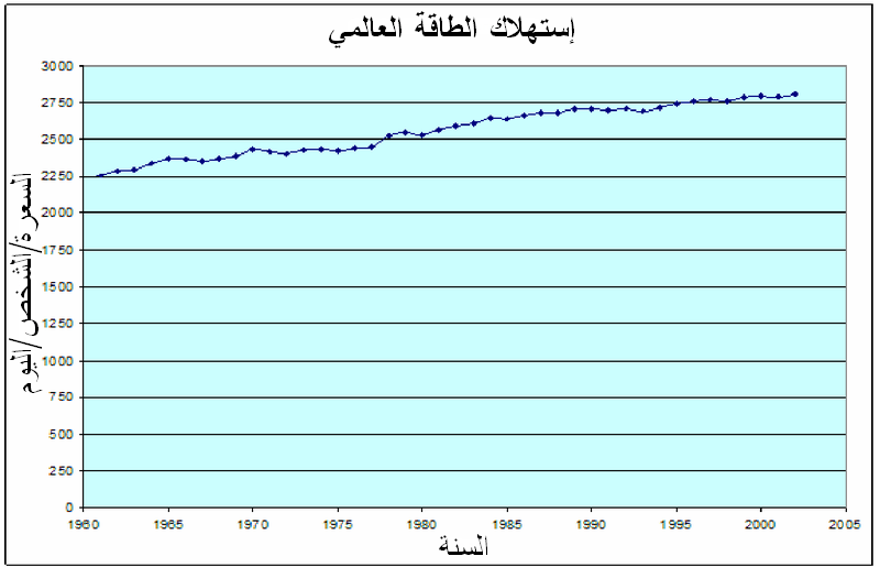 Daily energy consumption per person by year